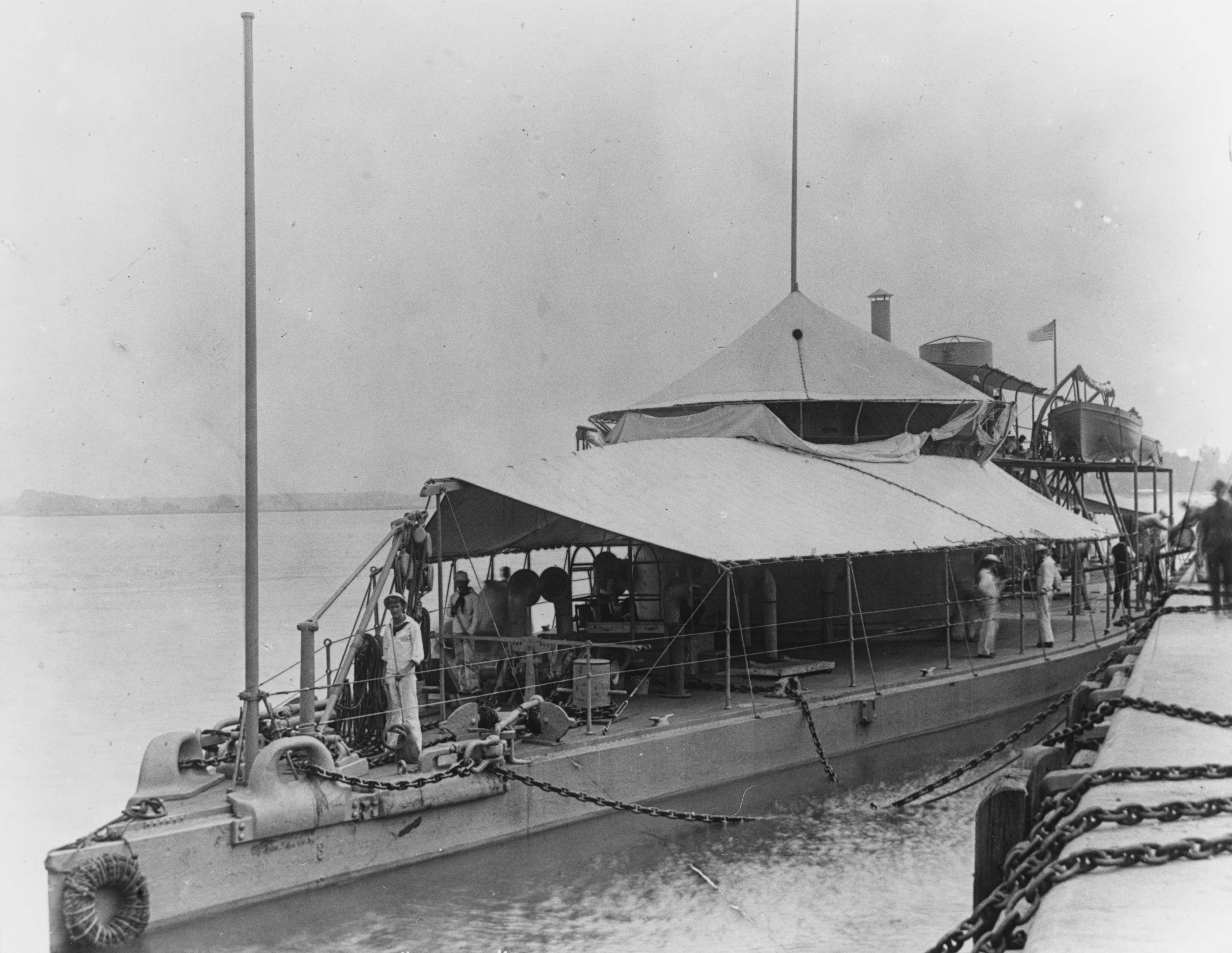 (1865-1899, ex-Manayunk) Photographed during her Spanish-American War service, 1898. Photograph from the Bureau of Ships Collection in the U.S. National Archives.